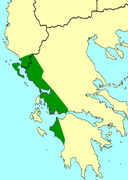 Distribution of Pelophylax epeiroticus